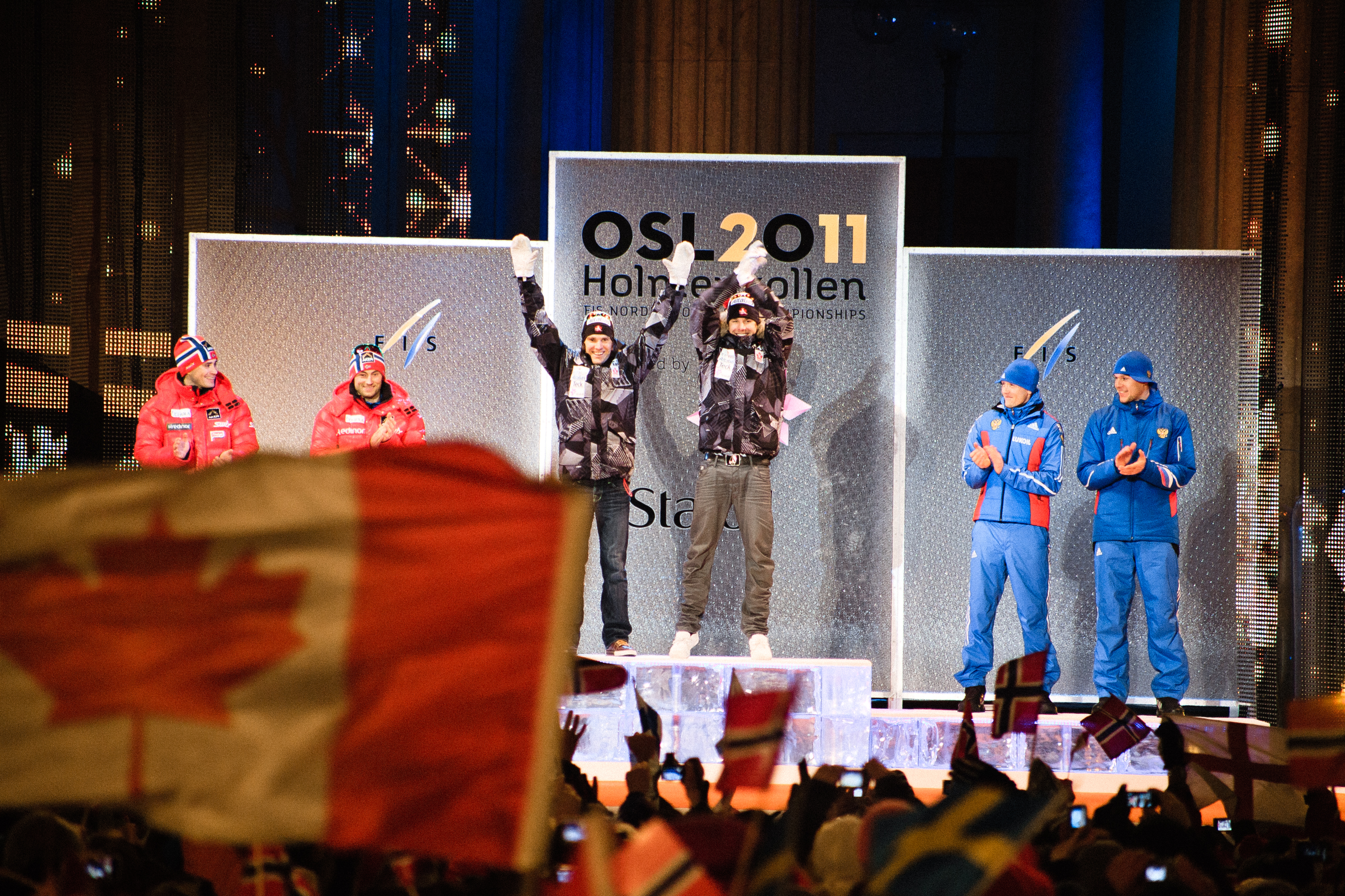 Medal ceremony of the men's team sprint at the FIS Nordic World Ski Championships 2011. Gold: Devon Kershaw and Alex Harvey (Canada), silver: Petter Northug and Ola Vigen Hattestad (Norway), bronze: Alexander Panzhinskiy and Nikita Kriukov (Russia).